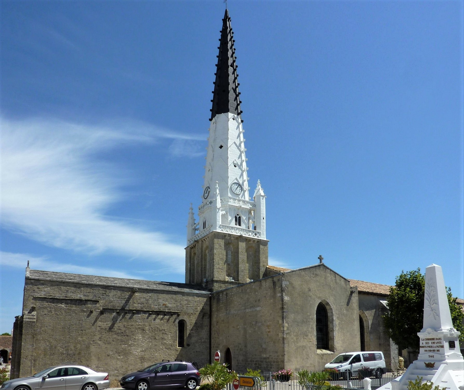 Exterior of Église Saint-Étienne d'Ars-en-Ré